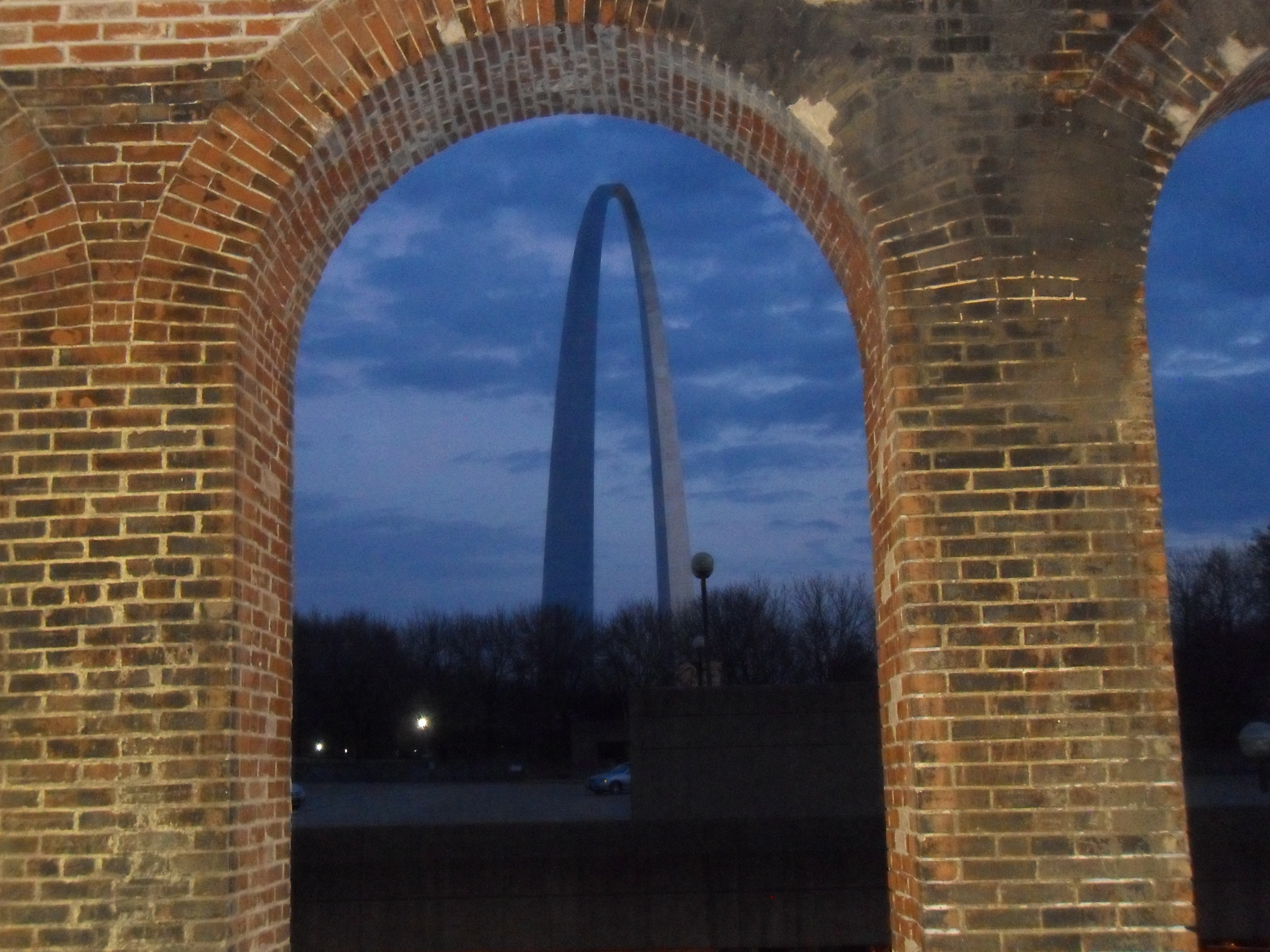 St. Louis Arch from Arch–Laclede's Landing Station.